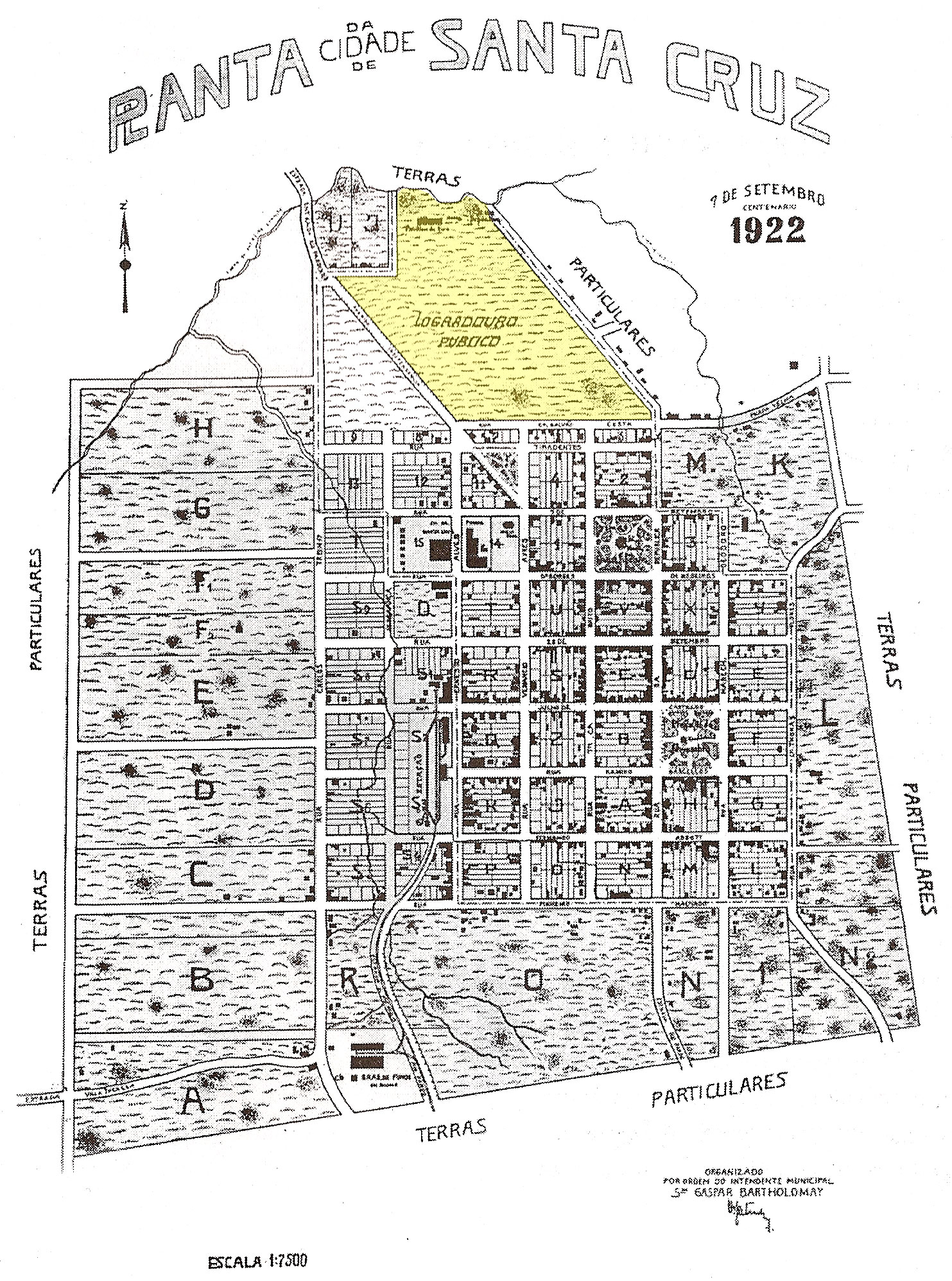 A map of the Brazilian city of Santa Cruz do Sul. (It is in the public domain because it was published in 1922, more than 70 years ago. Its author is the local city hall.) The highlighted area is the place where today happens the local Oktoberfest.